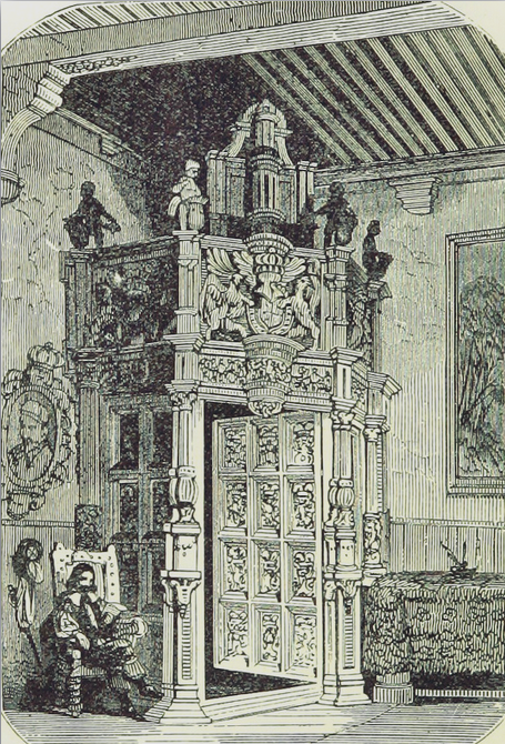 Portal crafted by Pauwel van der Schelden opens into the Schepenzaal of the Town Hall of Oudenaarde, Belgium